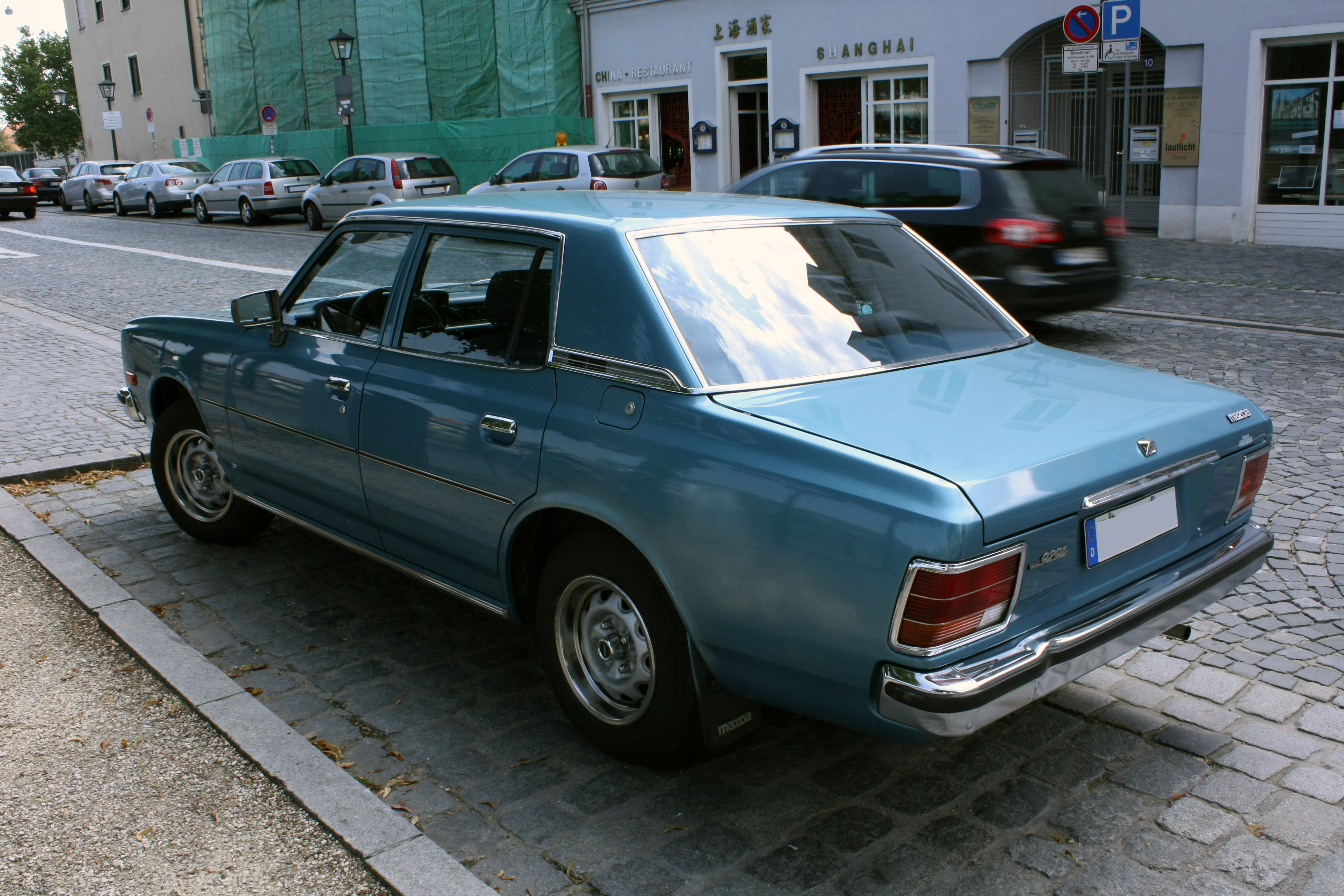 Mazda 929L